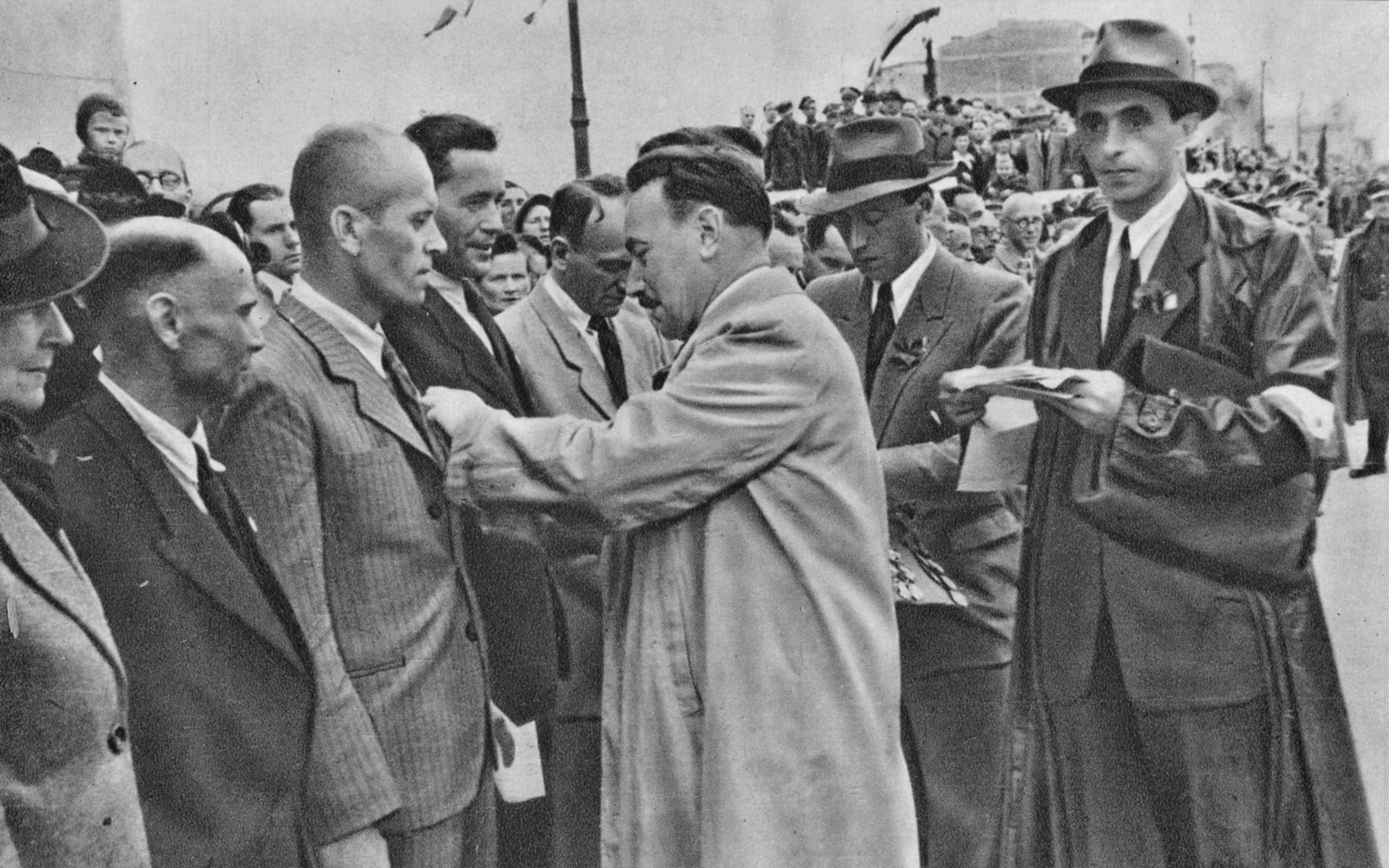 Bolesław Bierut awarding the leaders of work for the reconstruction of the Poniatowski Bridge in Warsaw